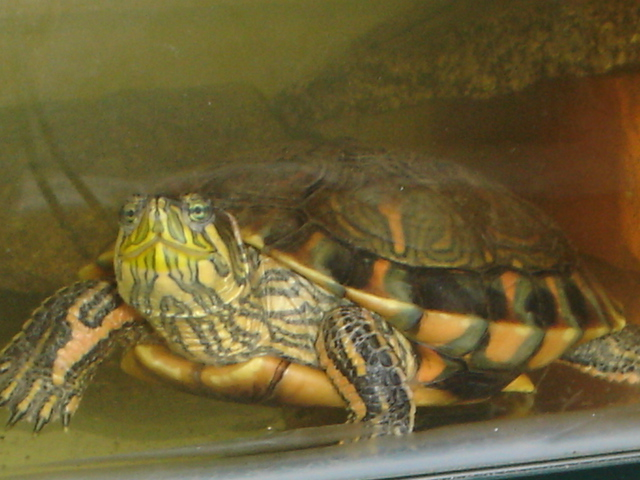 D'Orbigny's slider turtle (Trachemys dorbignyi dorbignyi) Turtle, Order Testudines